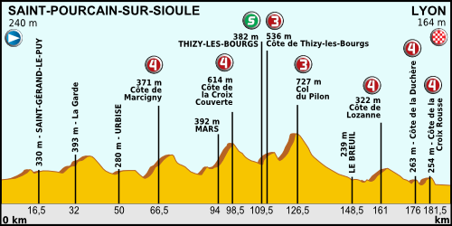 Tour de France 2013 - Profile Stage No. 14